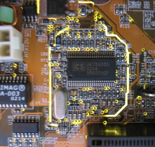 photo taken with light source behind the mainboard